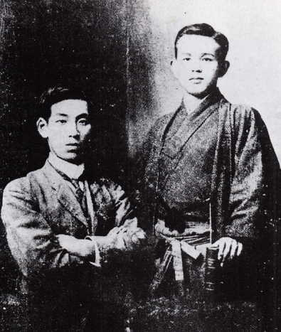 Kyōsuke Kindaichi (1882–1971, left) and Takuboku Ishikawa (1986–1912)